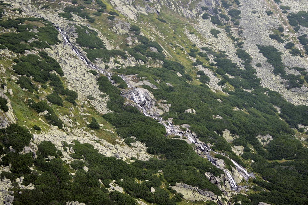 Batizovský waterfalls, High Tatras